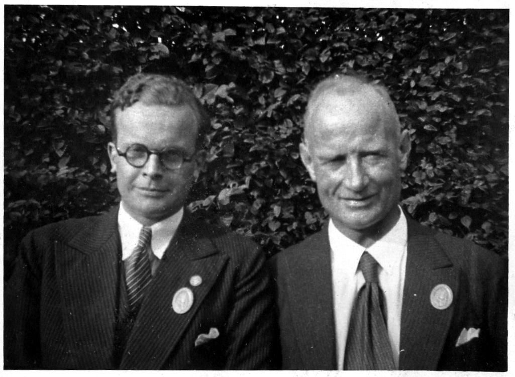 The picture shows Prof. Dr. Otto Ruff of Technische Universität Breslau with his assistant PhD candidate Manfred Giese.